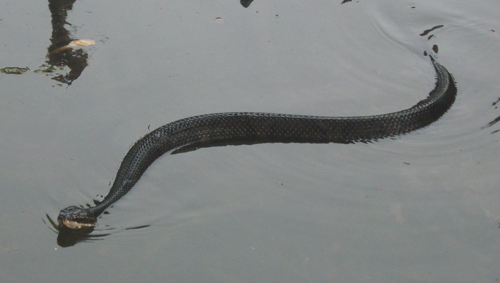 Captive Agkistrodon piscivorous conanti swimming in man-made pond. Taken 5/12/2007 by Larry D. Fishel (lfishel) Public domain